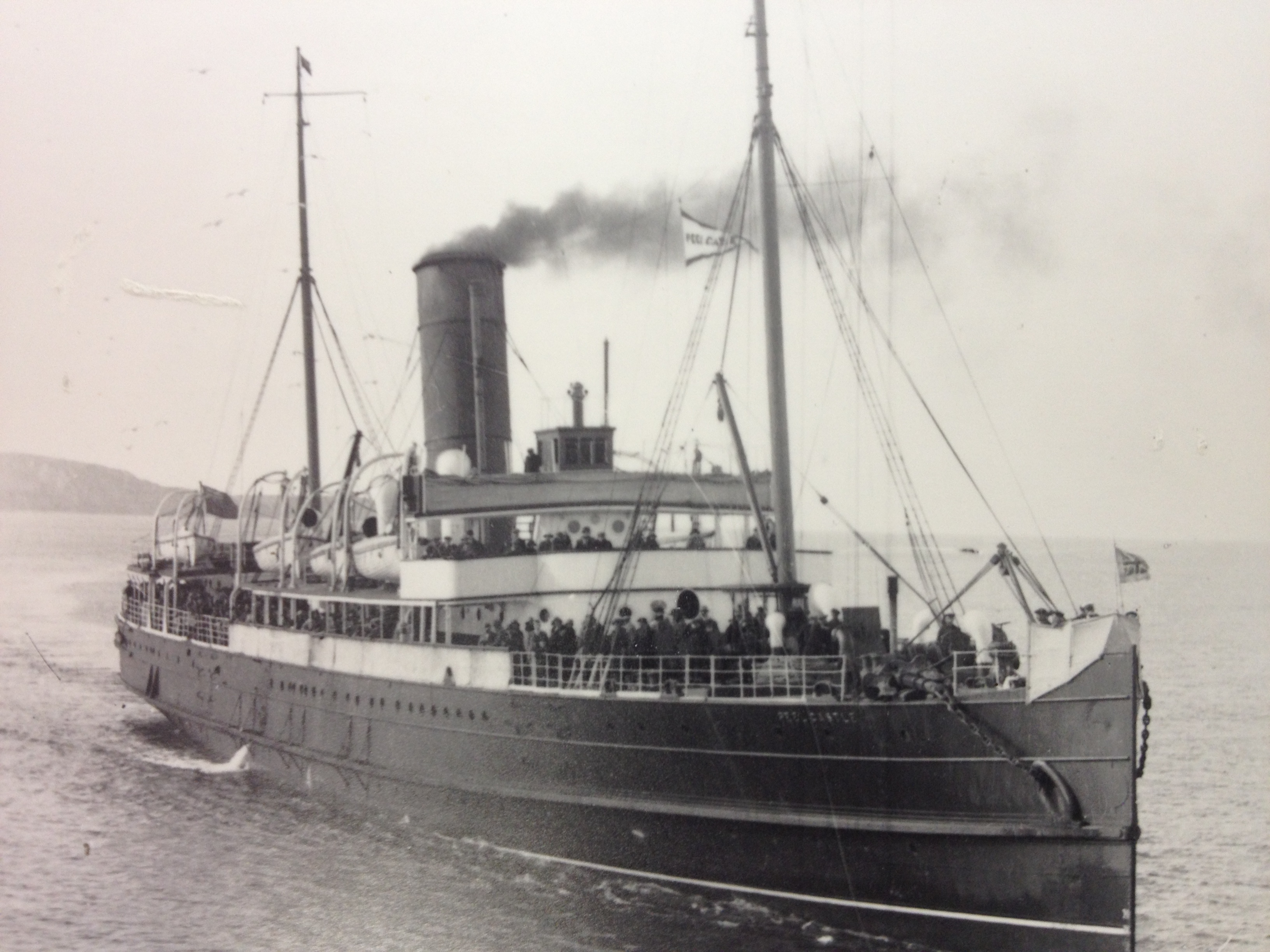 Peel Castle approaches her home port, Douglas.